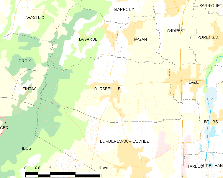 Map of French municipality